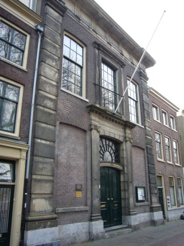 Doopsgezinde kerk Utrecht